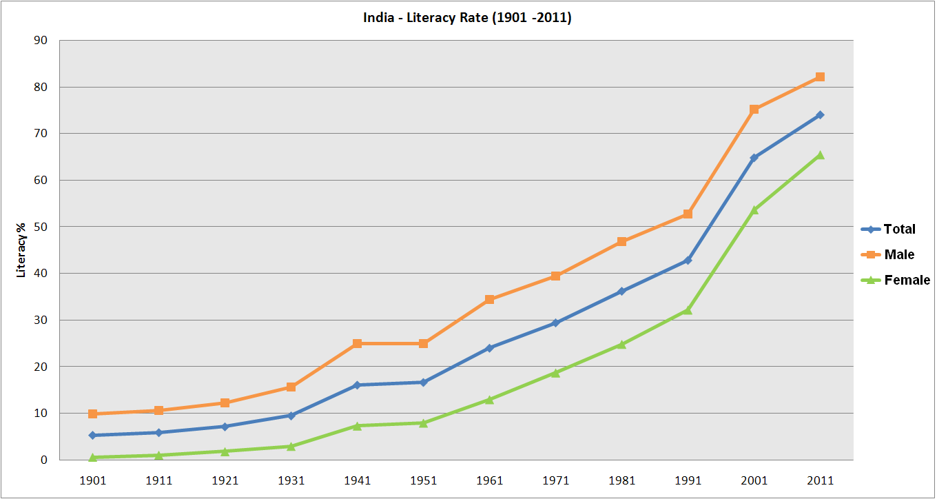 Own Work. Data from Census of India The chart lists the "crude literacy rate" in India from 1901 to 2011.